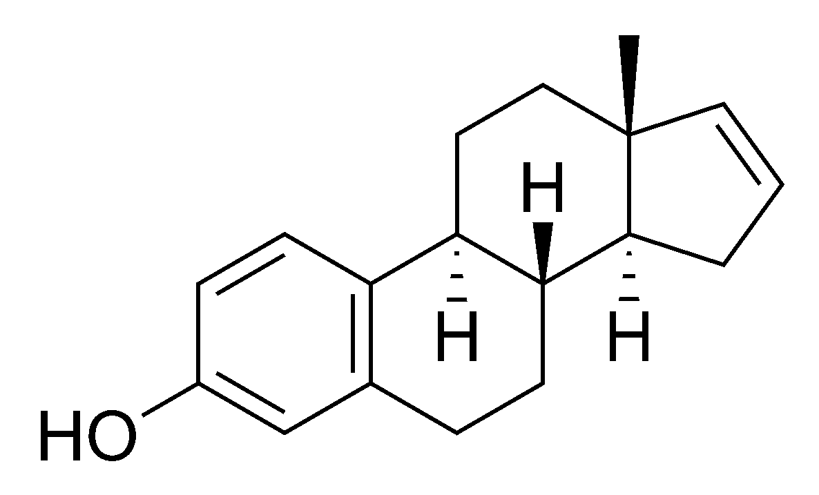 chemical structure of estratetraenol